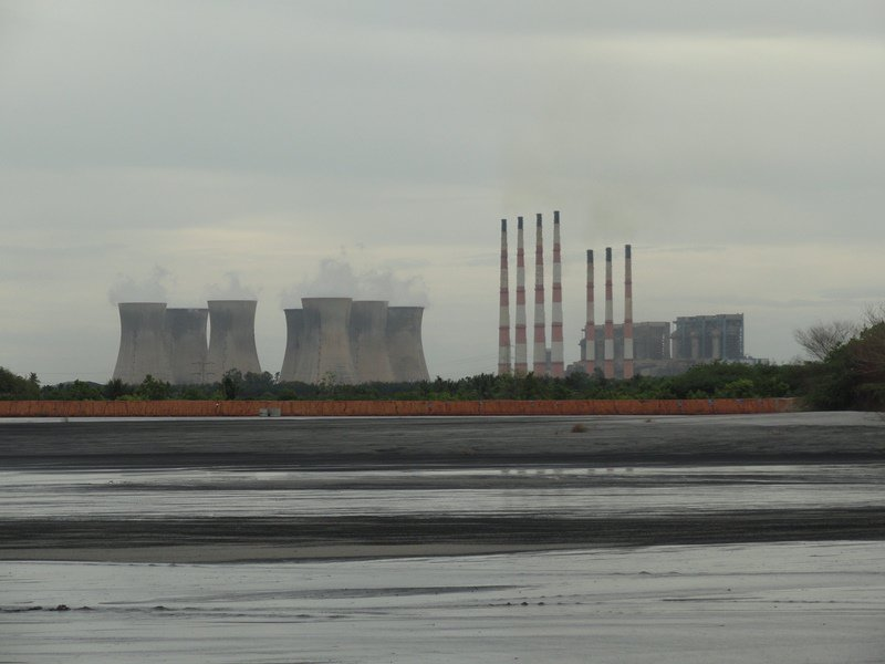 Thermal Power Station II